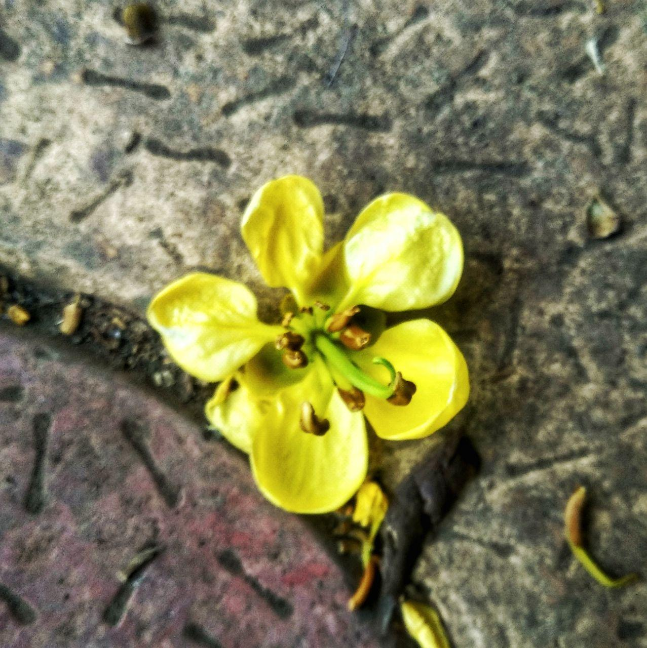 Flower of Senna surattensis